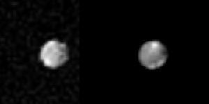 Voyager 2 took these images of Saturn's outer satellite Phoebe, on Sept. 4, 1981, from 2.2 million kilometers (1.36 million miles)away. This pair shows two different hemispheres of the satellite. The left image shows a bright mountain on the upper right edge reflecting the light of the setting sun. This mountain is possibly the central peak of a large impact crater taking up most of the upper right quadrant of Phoebe in this view. The right images shows a hemisphere with an intrinsically bright spot in the top portion of the image as well as the ridges appearing bright in the sunset light of the lower right. These images were processed by the Multimission Image Processing Laboratory of the Jet Propulsion Laboratory. The Jet Propulsion Laboratory manages the Voyager Project for NASA's Office of Space Science and Applications.